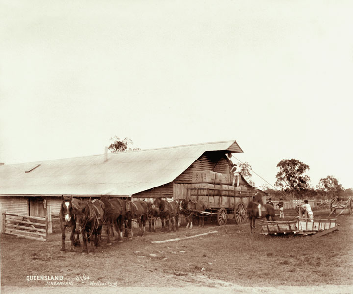 Wool carting and shed, Jondaryan.